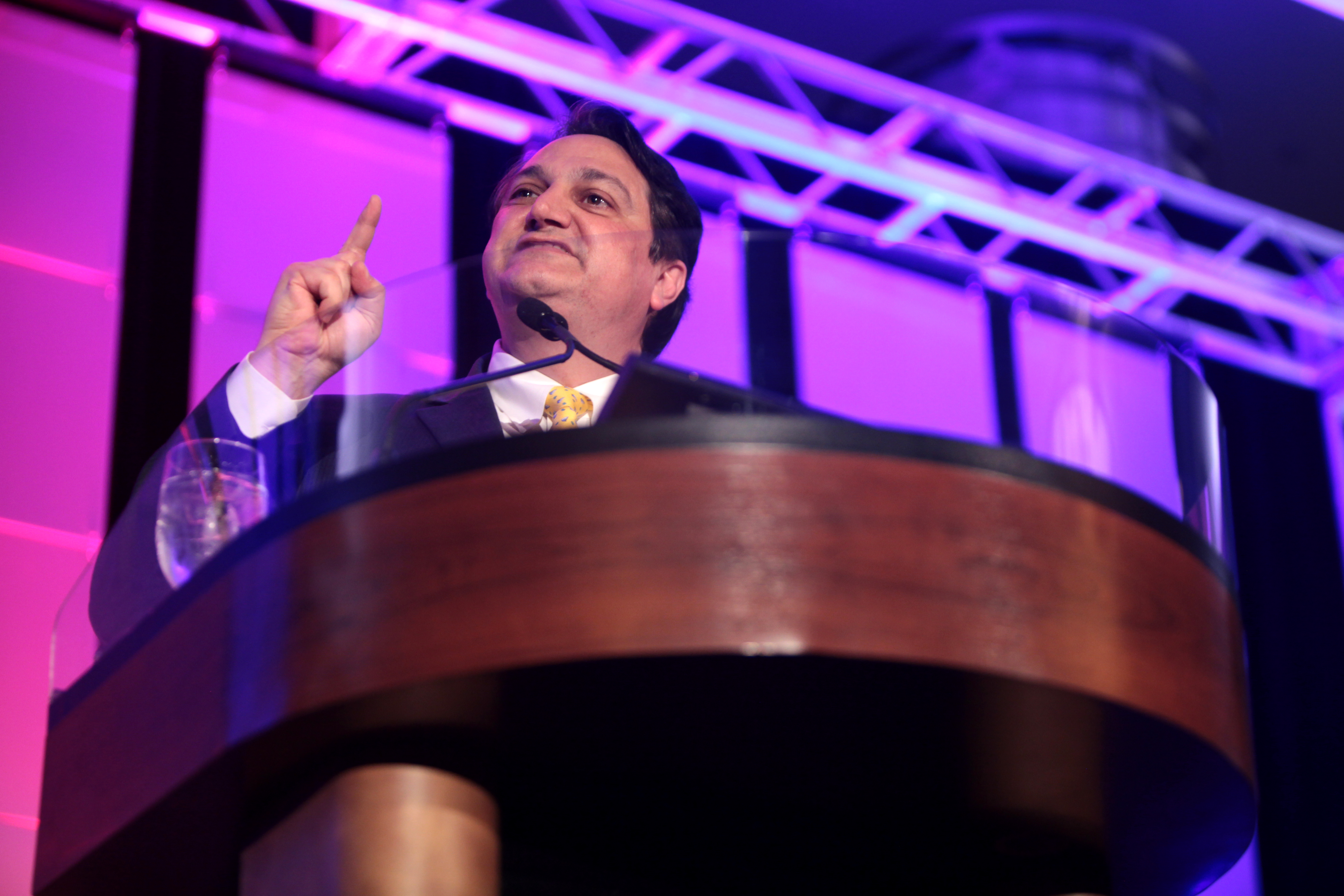 Steve Munisteri speaking in Fort Worth, Texas.